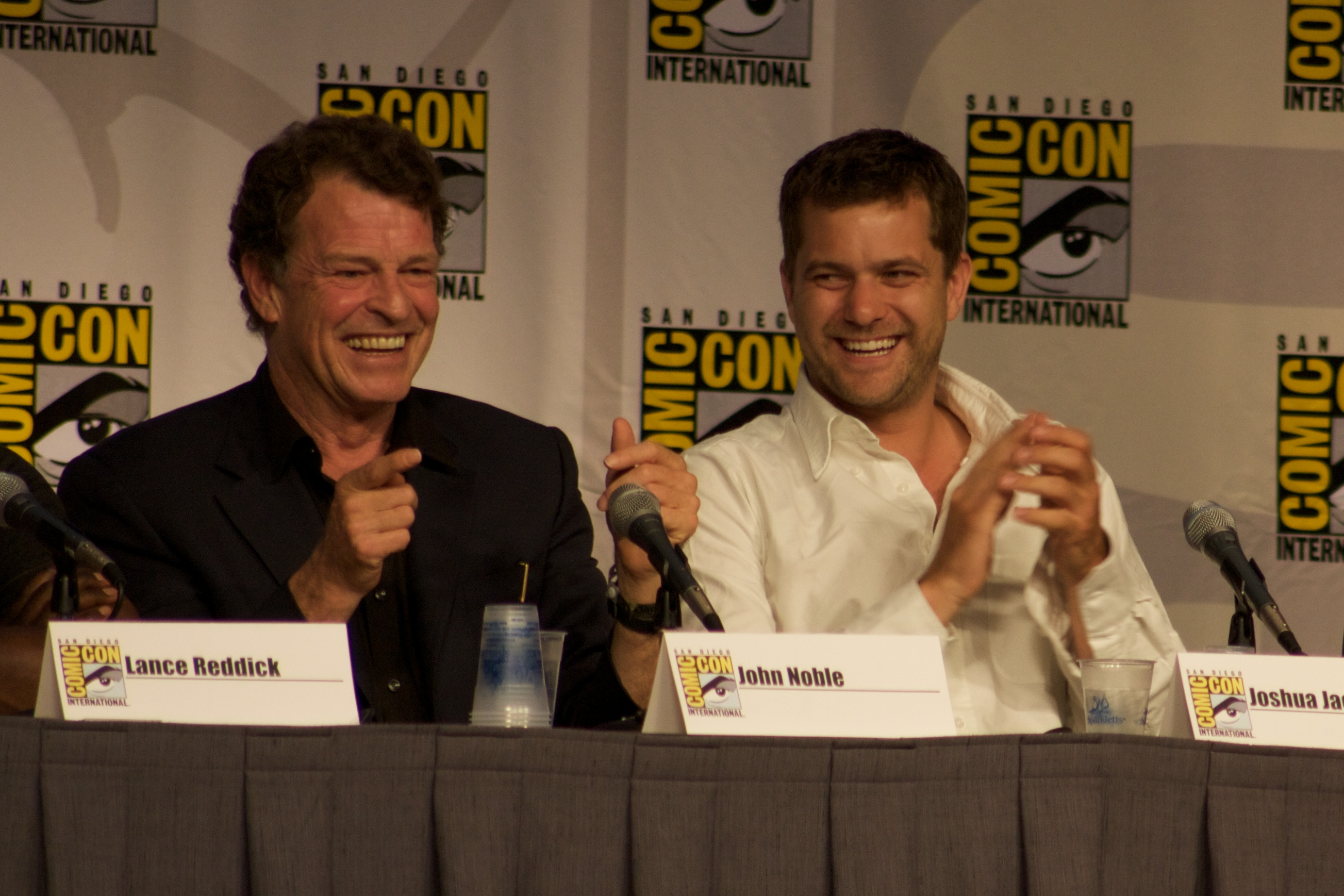 "Fringe" Panel. Actors John Noble and Joshua Jackson at San Diego 2010 Comic-Con International.